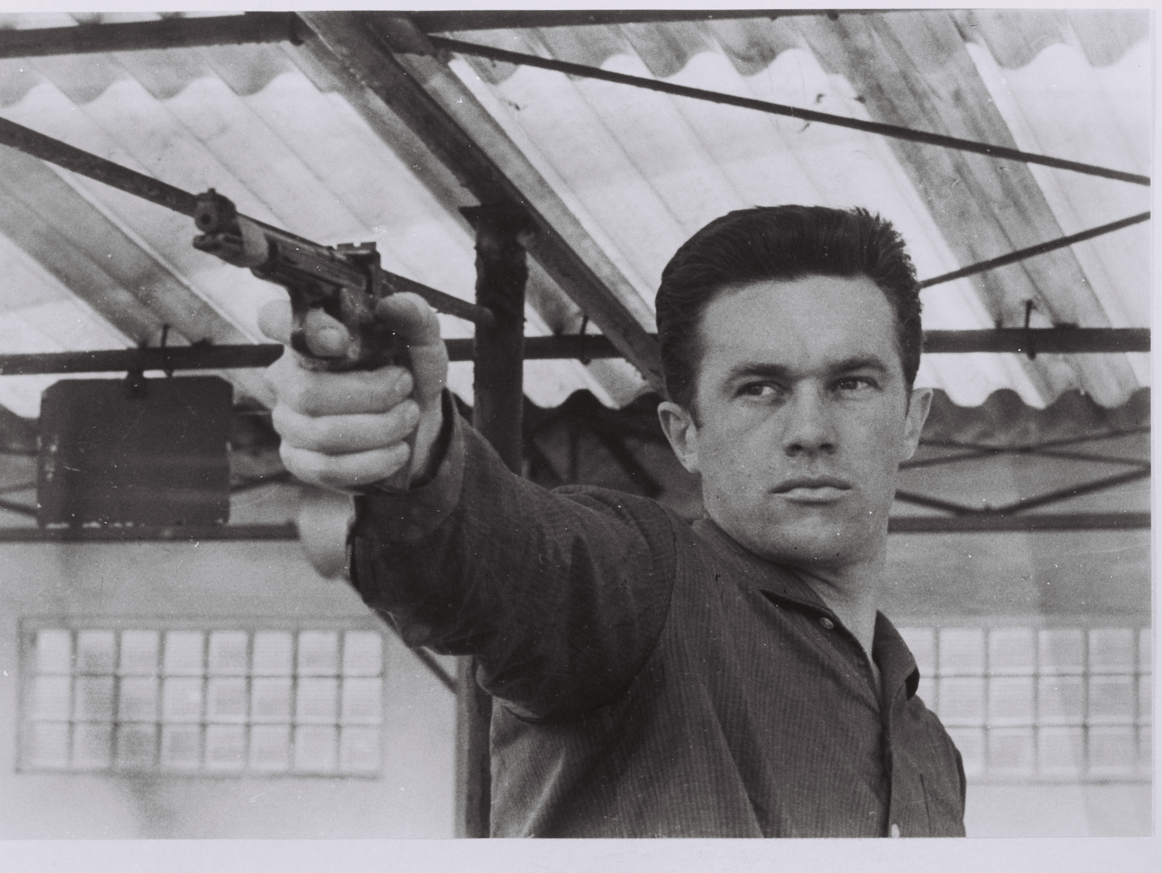 picture shooter Lubomir Nacovsky